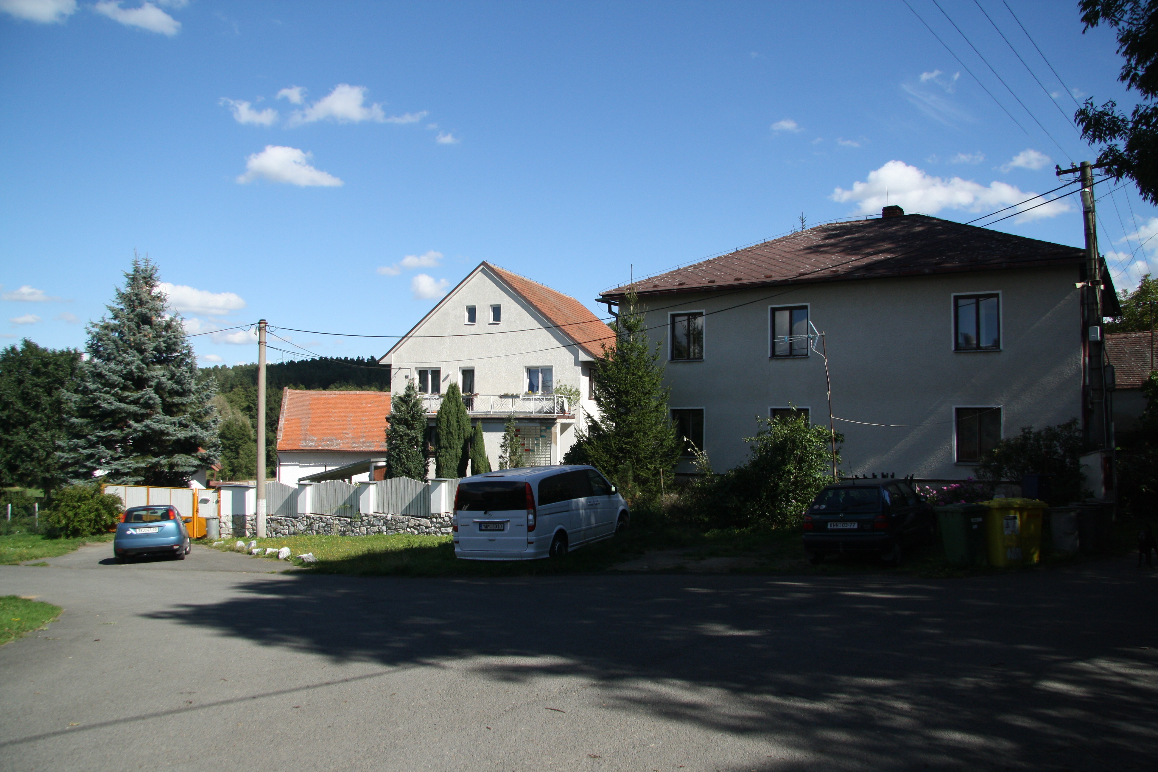 Center of Hradišťko, Sedlčany, Příbram District.